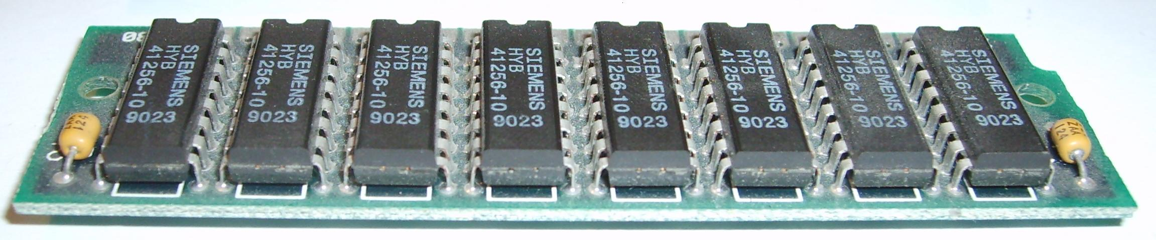 256kB RAM memory (30 pin SIMM), taken from my (very) old Atari STE. It's dimension is 88x26mm.